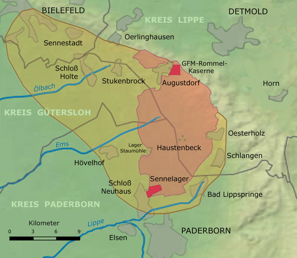 Map of Military Training Area Senne, North Rhine Westfalia, Germany